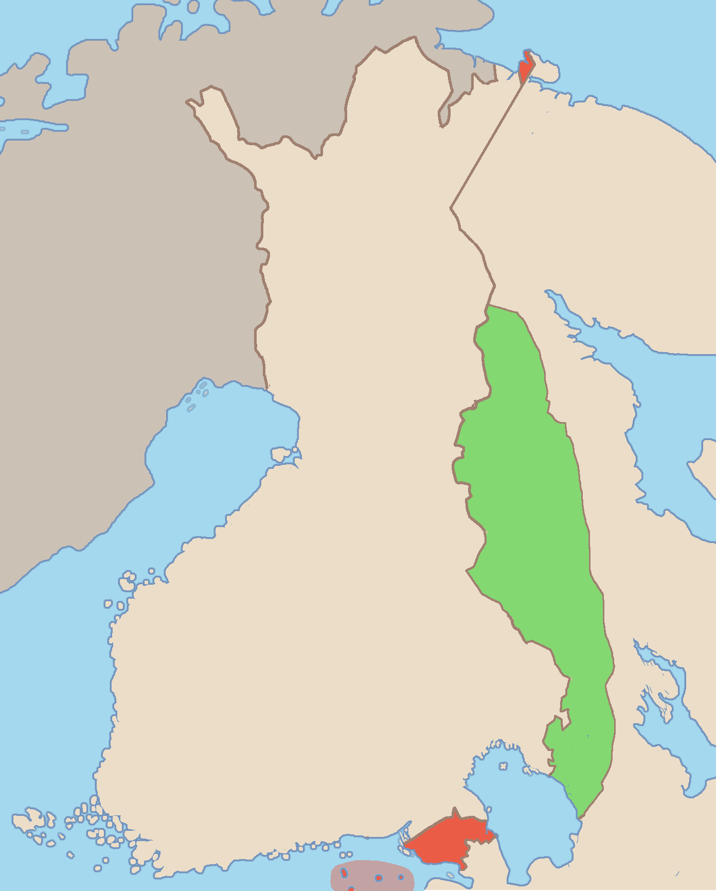 Map of Finnish Democratic Republic. Based on this map [1]Green indicates area that was planned to be ceded to the Finnish Democratic Republic and red area from Finland to the Soviet Union.